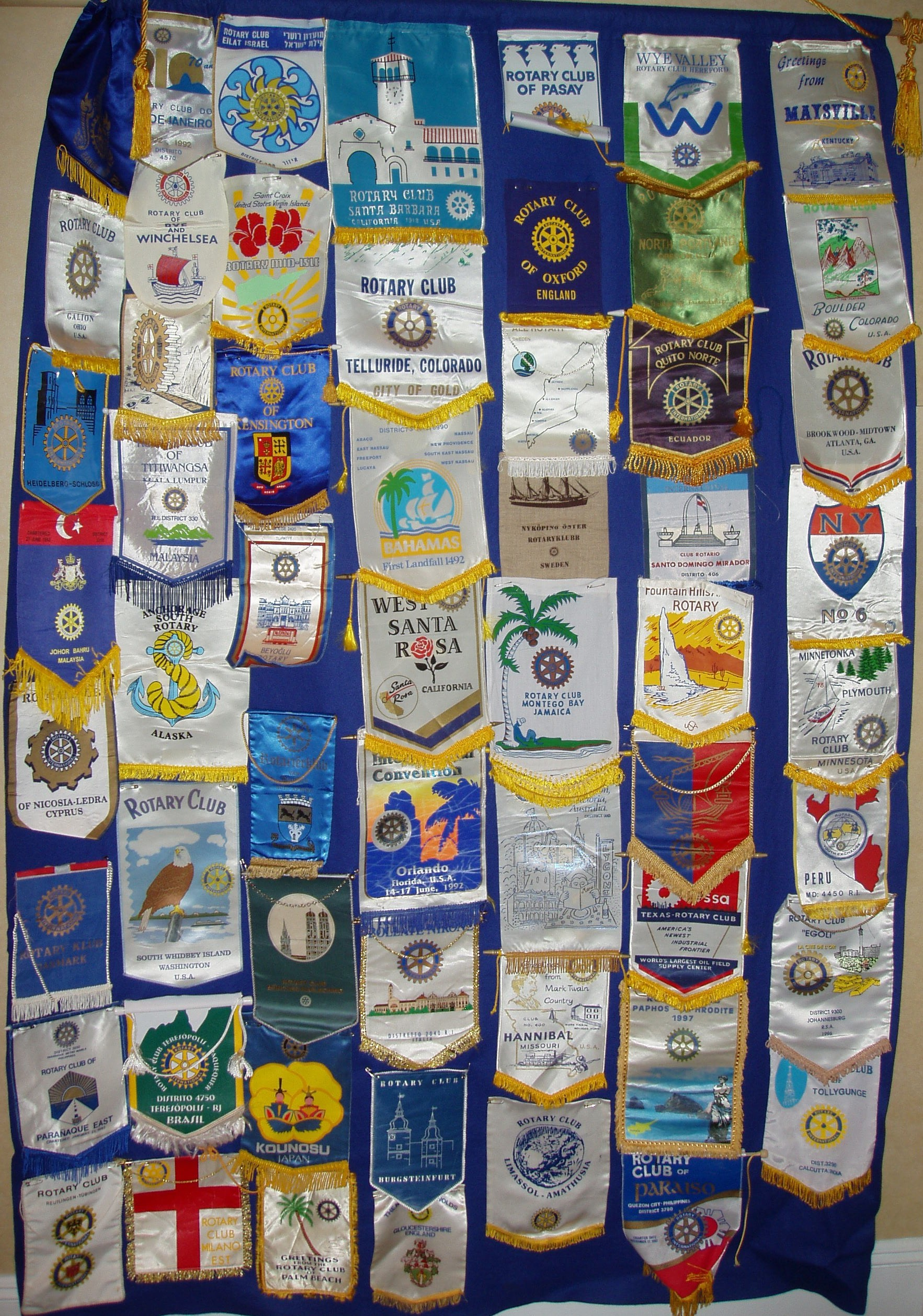 Rotary Club banners in Princeton, New Jersey. Photograph by me, March 2006.